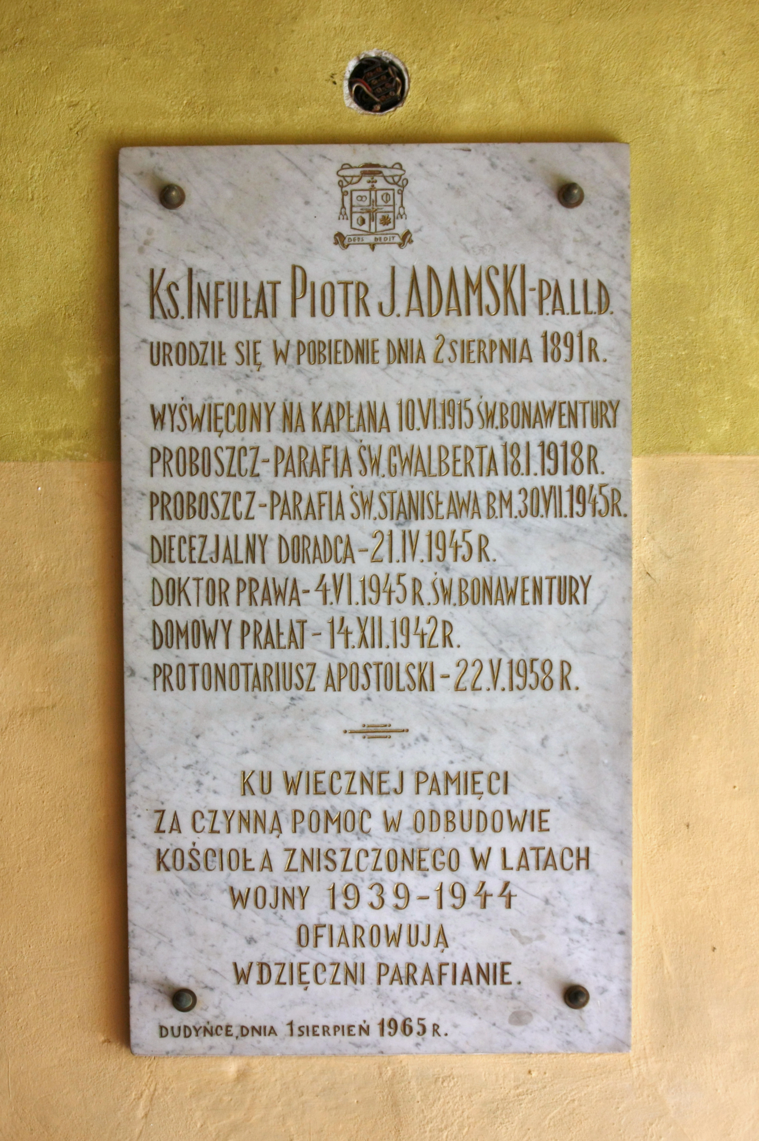 Church in Dudyńce.